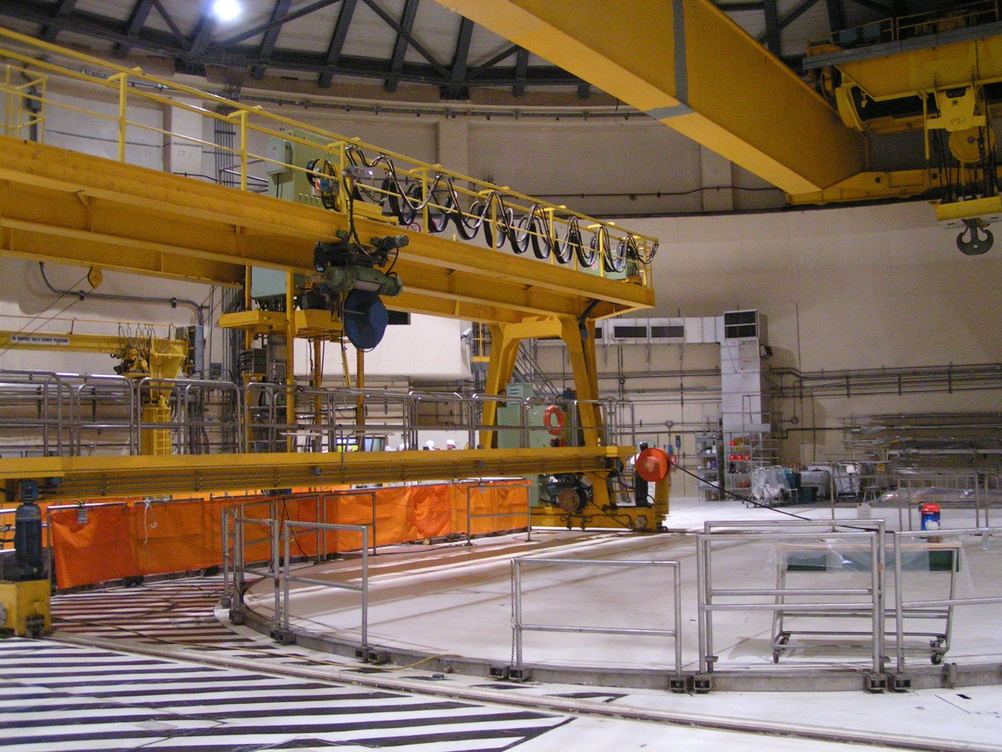 See where this picture was taken [?]